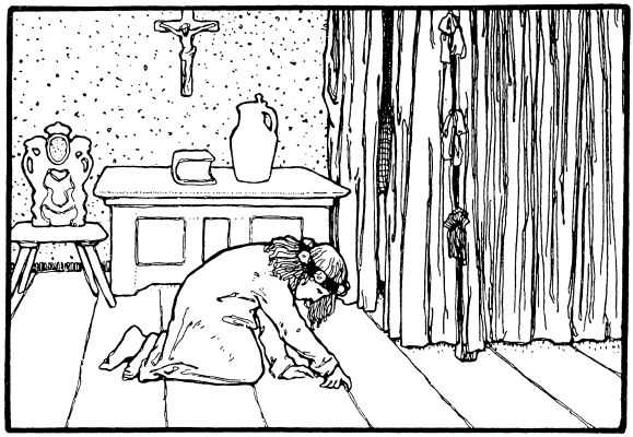 Illustration by Otto Ubbelohde to the fairy tale The Stolen Farthings